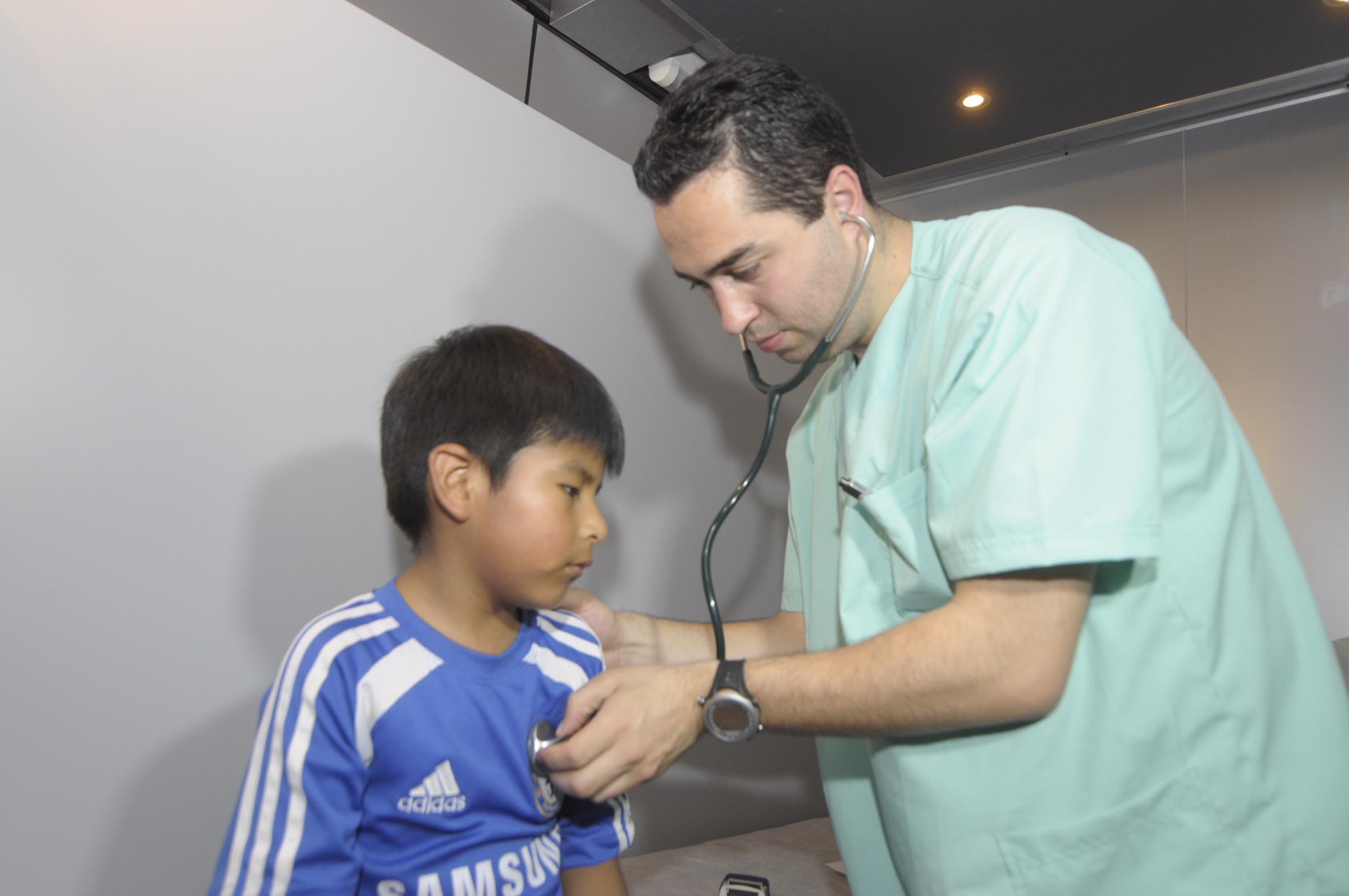 Auscultation of a child